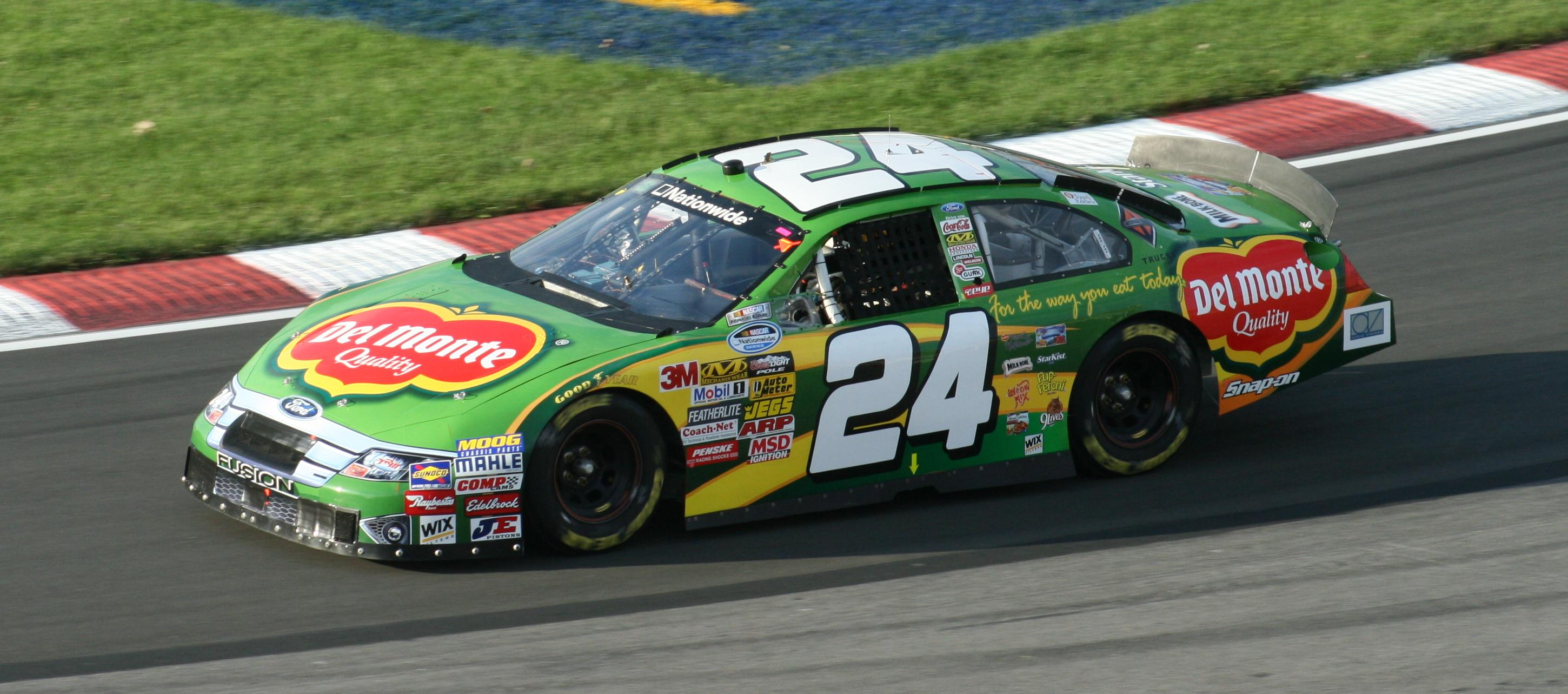 D.J. Kennington in the qualification for the 2010 NAPA Auto Parts 200 at the Circuit Gilles Villeneuve in Montreal.